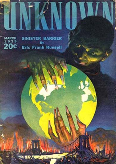 Cover of March 1939 issue of Unknown (magazine). Artist is Harold Winfield Scott. Copyright was either to Scott, or more likely Street & Smith, who published the magazine.